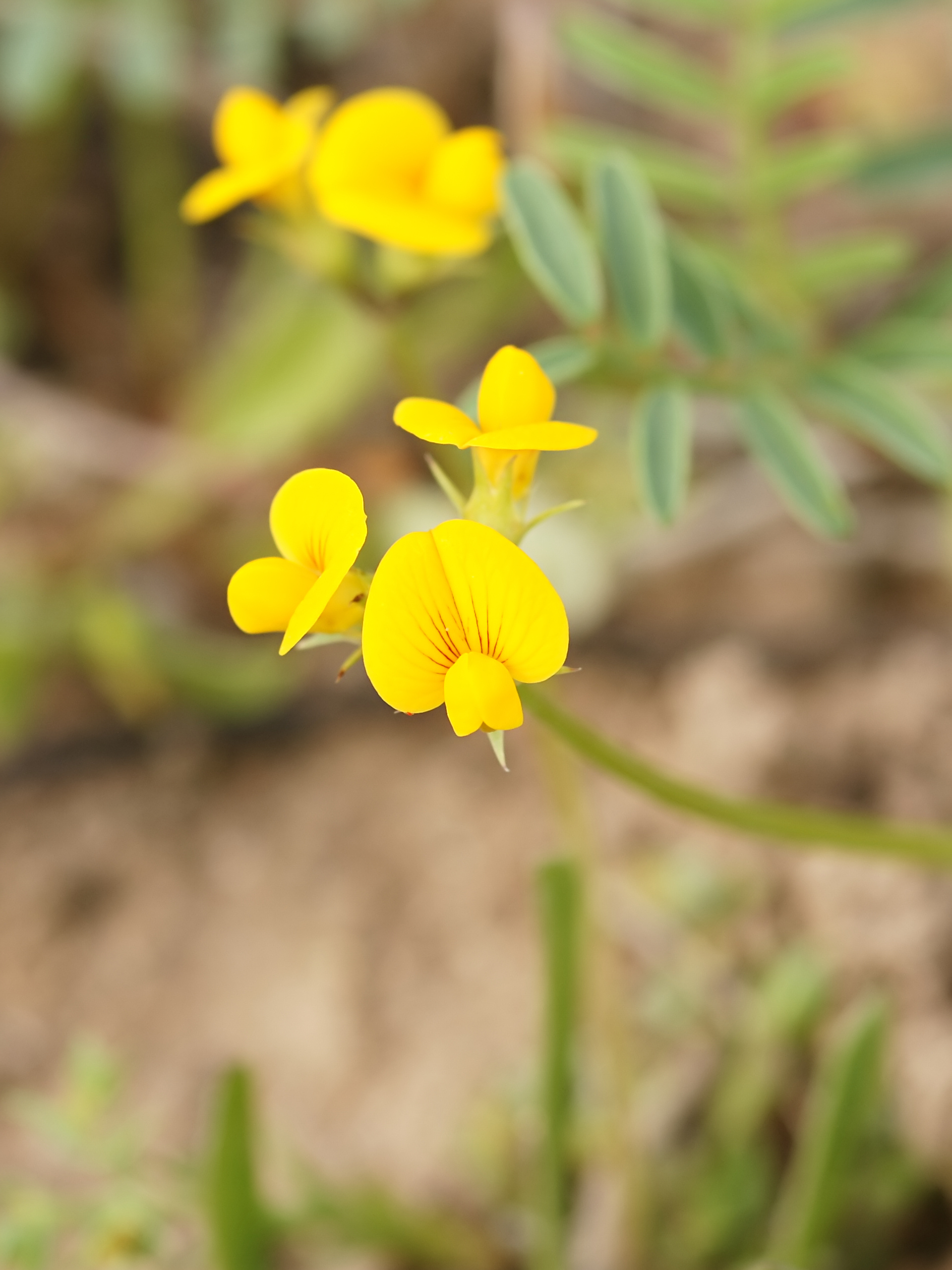 Prickly Scorpions Tail near Cala Ses Salinas, Mallorca.